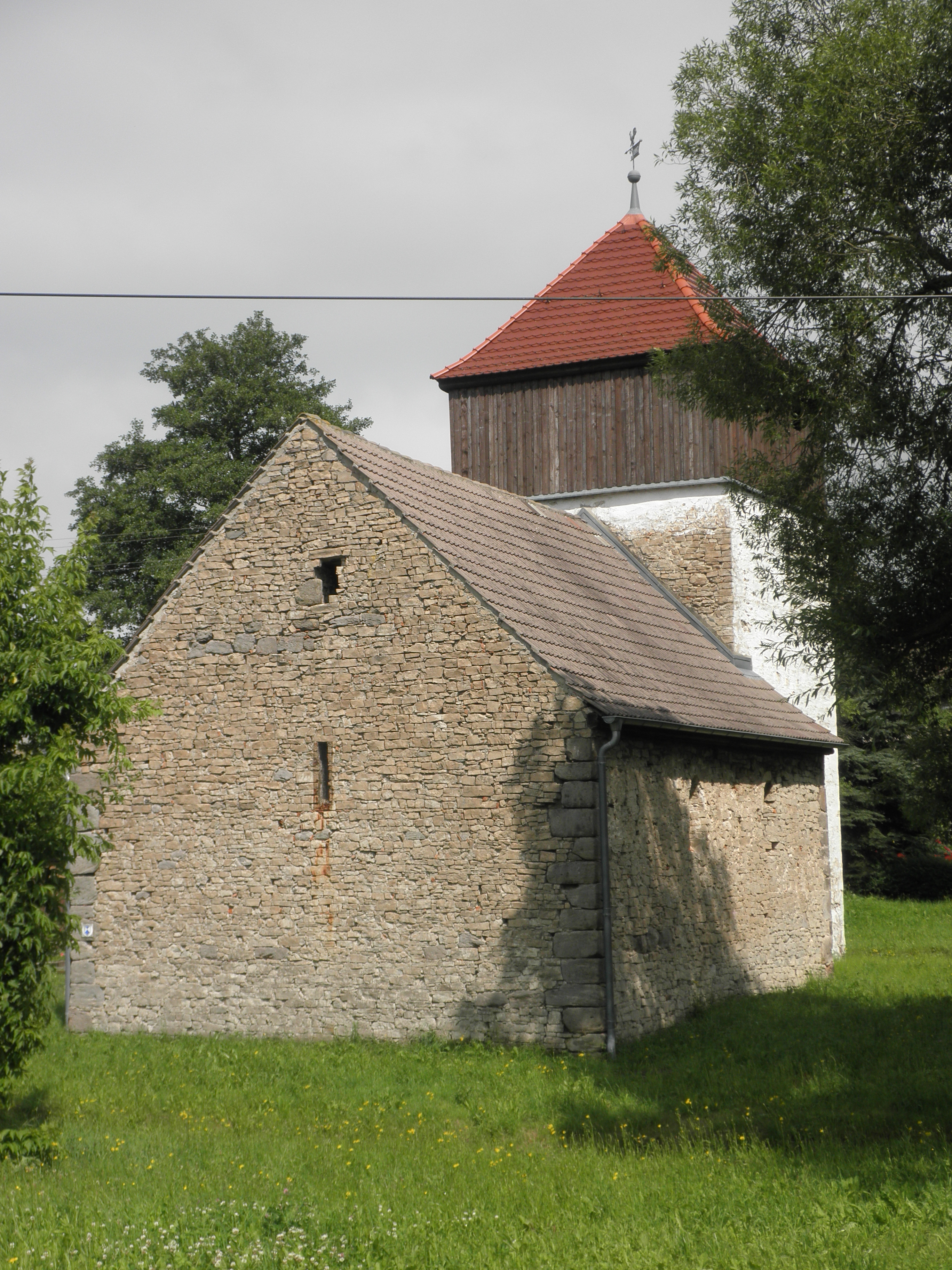 Church in Döblitz (Triptis) in Thuringia